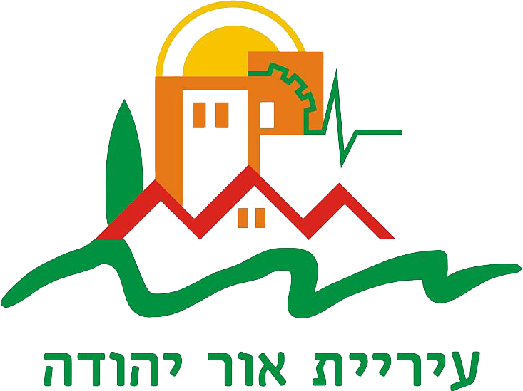 Coat of Arms of the municipality of Or Yehuda